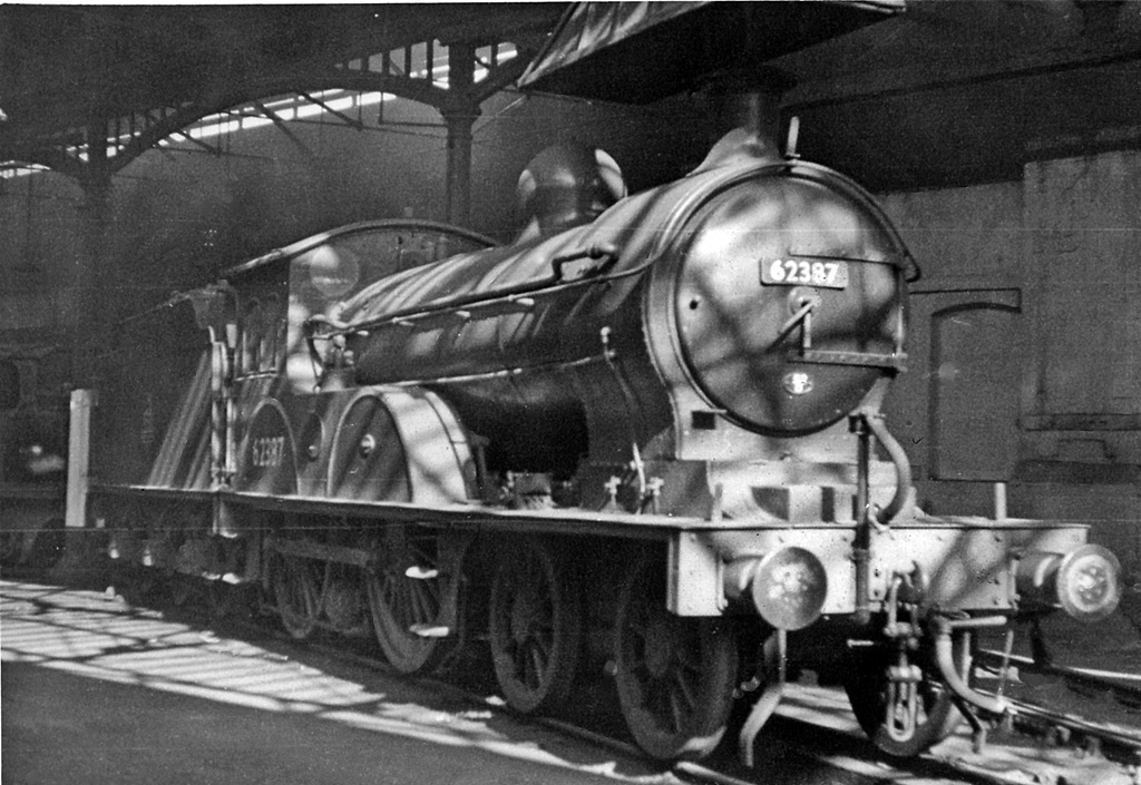 Shafts of sunlight strike a North Eastern D20 4-4-0 inside Gateshead Locomotive Depot. Situated in a cramped site on the south bank of the Tyne between King Edward Bridge Junction and Gateshead West Station, Gateshead Locomotive Depot was the principal passenger depot for Newcastle traffic on the ECML and the lines to Carlisle and to Tees-side via Sunderland; Heaton Depot to the north, equally large, also provided passenger motive-power but was devoted more to freight traffic. Gateshead (coded 52A) had an allocation in 1954 of 94, comprising 35 4-6-2, 12 2-6-2, 8 4-6-0, 3 4-4-0, 7 0-6-0, 7 2-6-2T, 1 0-6-2T, 18 0-6-0T, 1 0-4-4T and 2 0-4-0T. Having been built in 1907 for main ECML express work, D20 No. 62387 seen here was by 1954 mainly engaged in pilot assistance to the big engines on heavy ECML expresses.